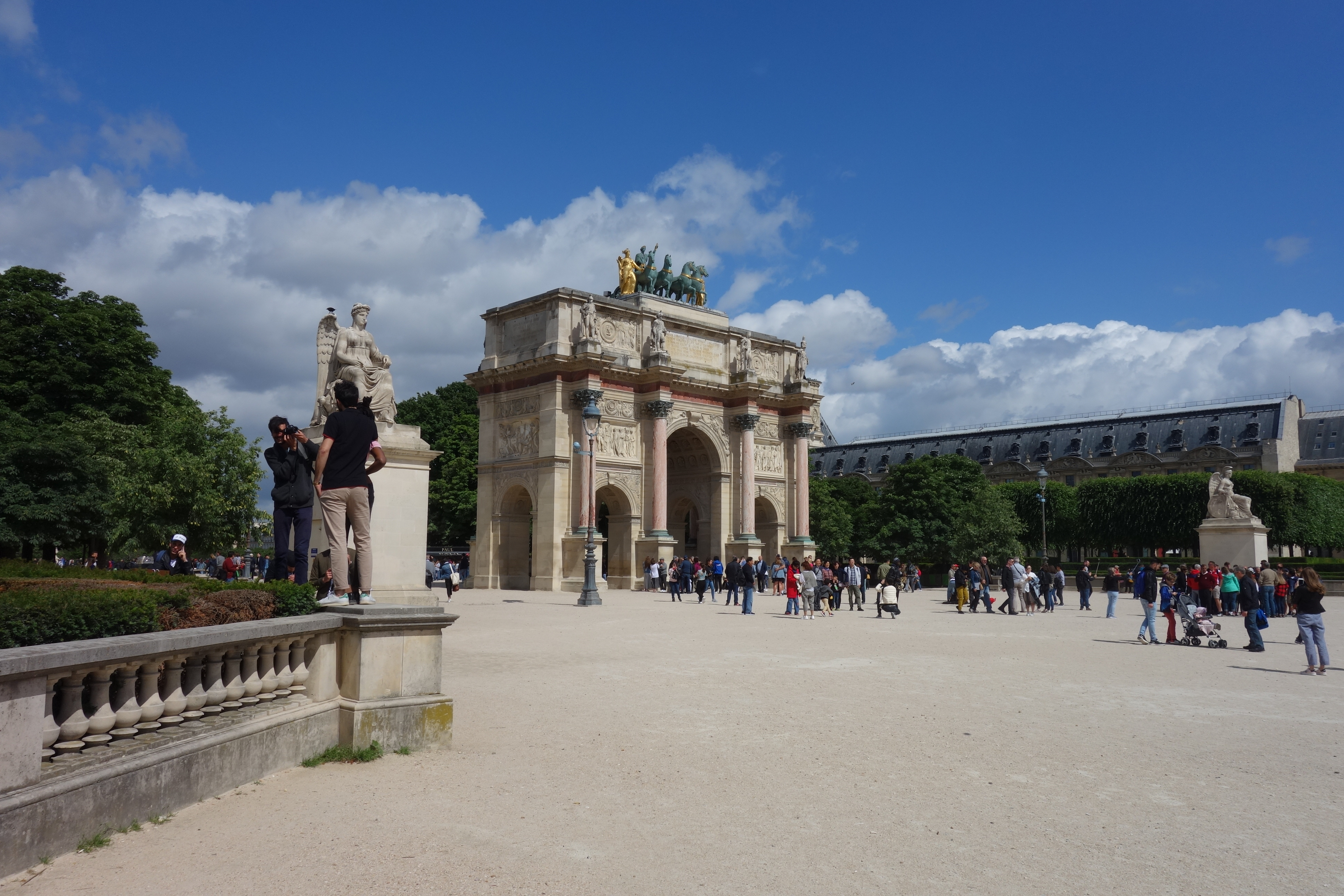 Tourists in front of the Petit Arc de Triomph (officially the Arc de Triomphe du Carrousel) near the Louvre in Paris. These tourists are an example of heritage tourists.